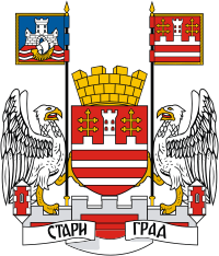 Stari Grad coat of arms